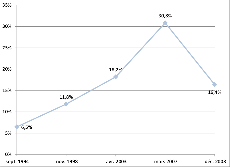 Chart of election resultat of the Action démocratique du Québec.